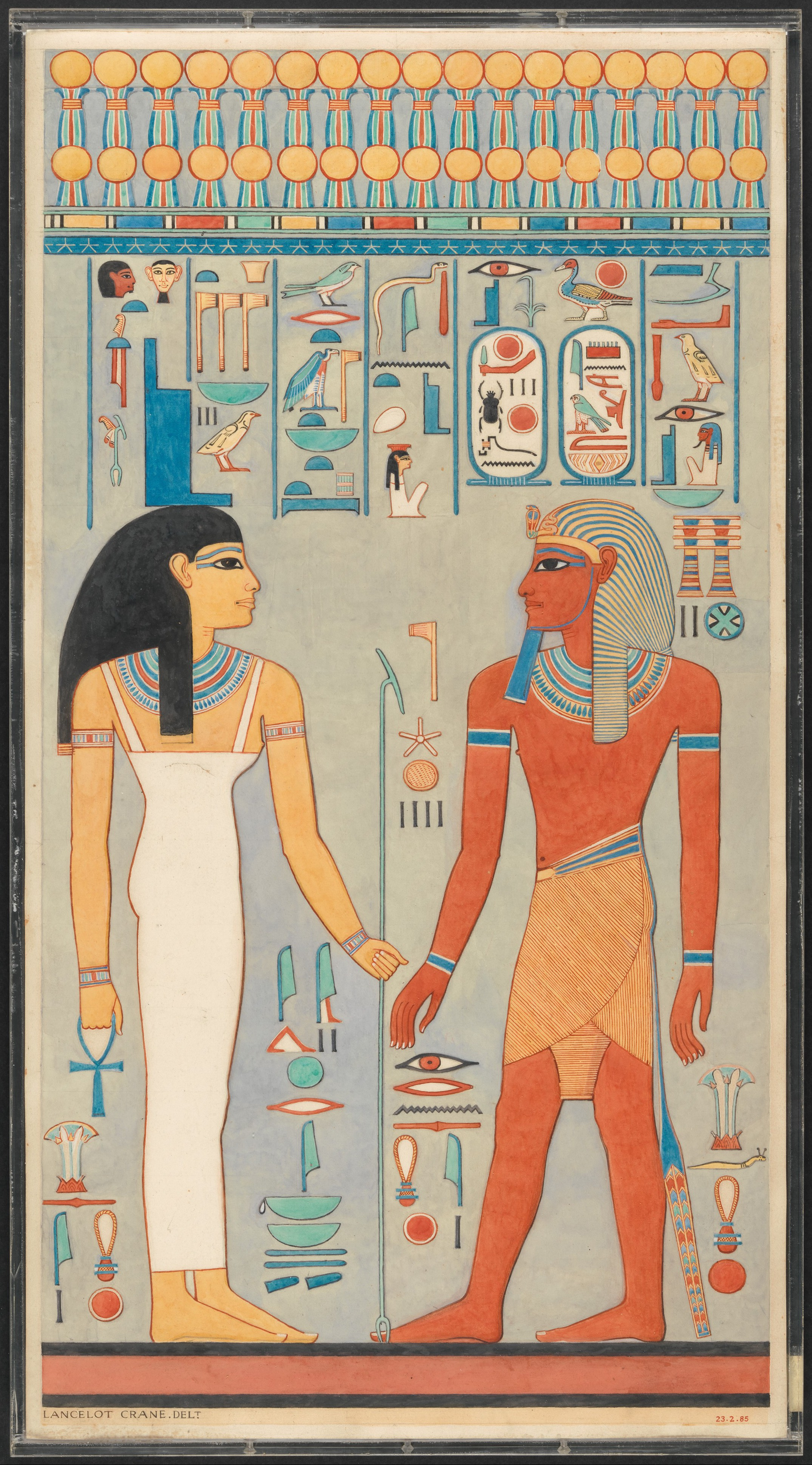 Facsimile, Haremhab (KV 57)